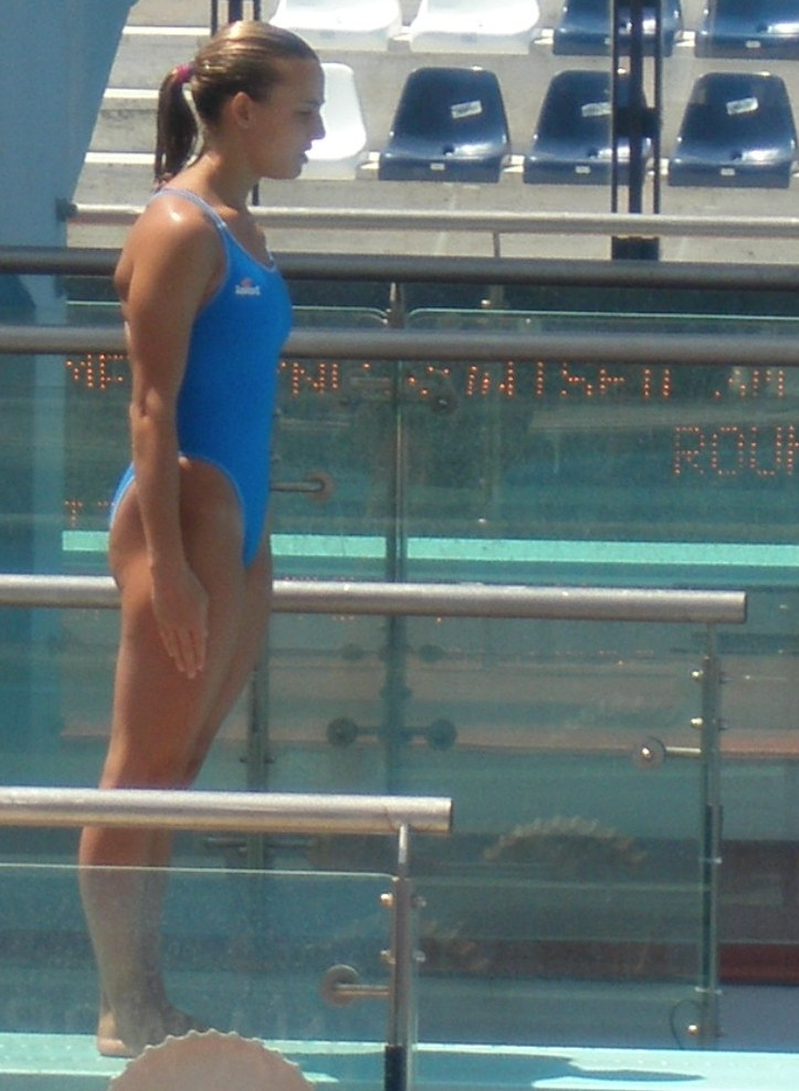 Tania Cagnotto at Diving World Championship, Rome, July 23rd 2009